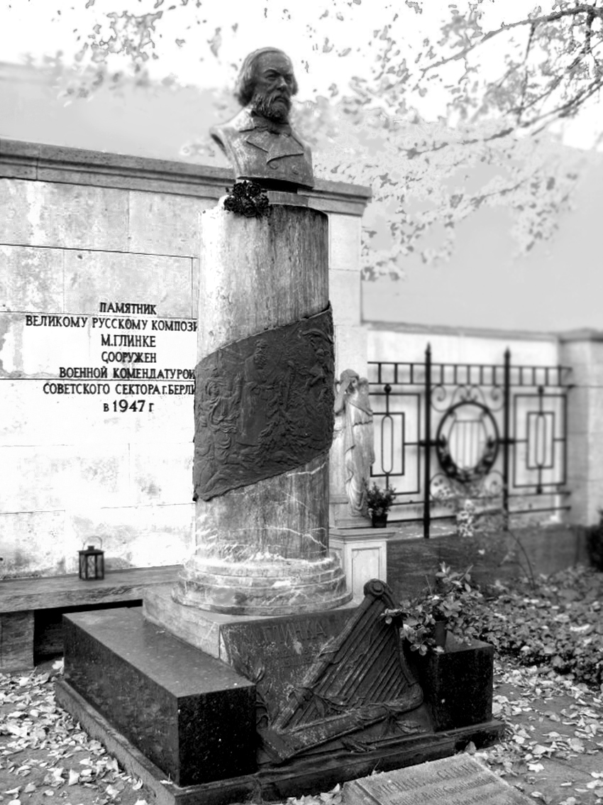 Monument to the Russian composer M. I. Glinka. A sculptor — painter Vasily Nikolaevich Masyutin (1884-1955). Russian Orthodox cemetery Berlin-Tegel.